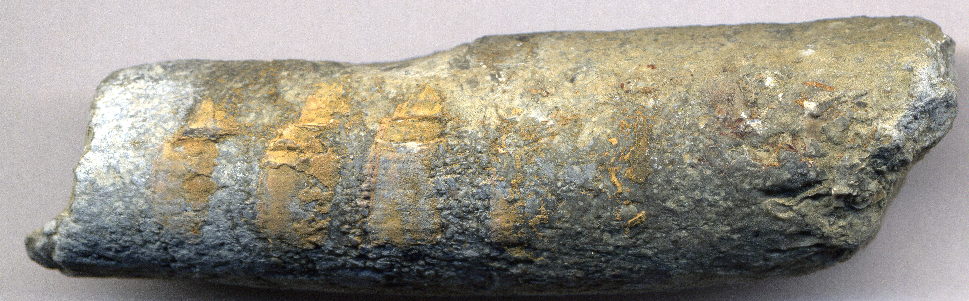 Cameroceras inaequabile (Miller, 1882) fossil nautiloid (8.0 cm across) from the Ordovician of Kentucky, USA. This is a partial internal mold of a Cameroceras nautiloid cephalopod. The living animal was a squid-like creature that constructed a long, slightly tapering, aragonitic, hollow shell with regularly-spaced internal walls. The original aragonite shell has dissolved away, leaving an internal mold (impression of the shell's interior), composed of calcareous sediments. Nautiloids were relatively common components of Paleozoic oceans. Most species had straight, slightly tapering shells, but some had loosely coiled or tightly coiled shells The entire group is represented in today's oceans by three living species of chambered nautilus - Nautilus pompilius, Nautilus macromphalus, and Allonautilus scrobiculatus. Classification: Animalia, Mollusca, Cephalopoda, Nautiloidea, Endocerida, Endoceratidae Stratigraphy: Kope Formation, Edenian Stage, lower Cincinnatian Series, Upper Ordovician Locality: loose piece from roadcut along the northeastern side of the AA Highway, immediately southeast of the Rt. 154 intersection, west-southwest of the town of Moscow (Ohio), northern Kentucky, USA (38° 50' 13.65" North, 84° 15' 36.81" West)